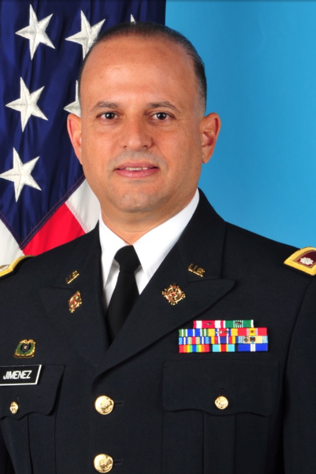 Portrait of Epifanio Jimenez Cruz